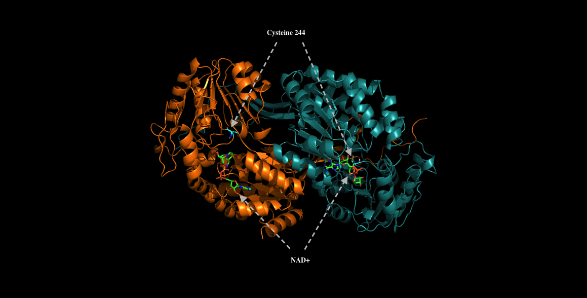 Structural image of ALDH3A1's active site, containing catalytic residue Cys244 and NAD+.